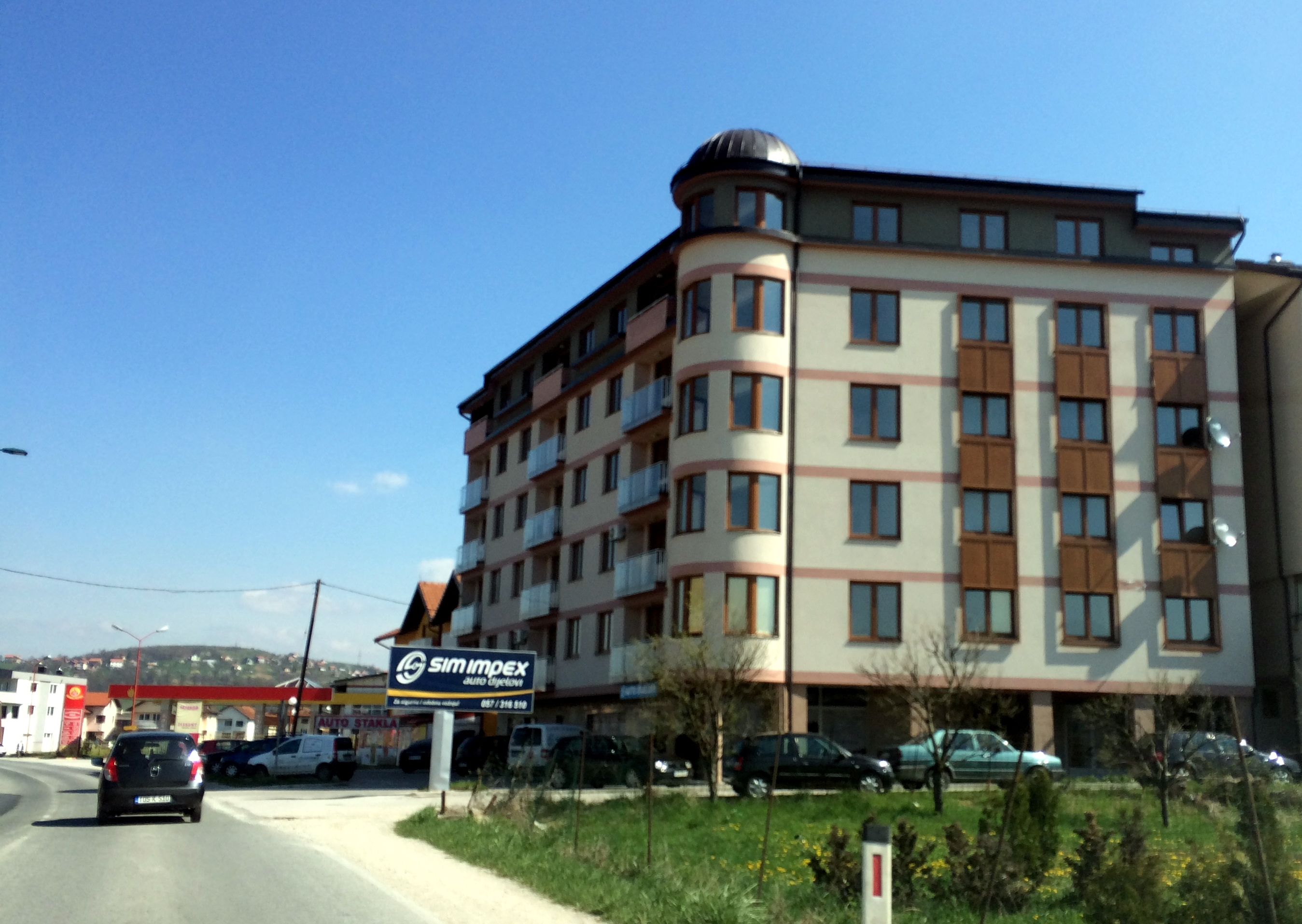 Image from the municipality of East Ilidza (Istočna Ilidža), Republika Srpska, south of Sarajevo in Bosnia and Hercegovina.